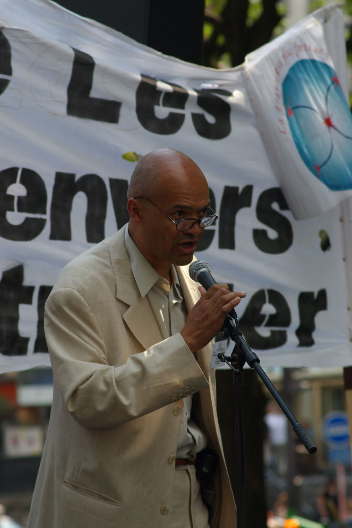 Claude Ribbe, historian, speaking before the march against discriminations made to overseas' french people. 28 april 2007